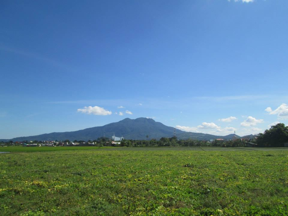 View of Mt. Makiling from the rice fields in Parian, Calamba City, Laguna